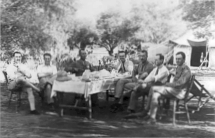 Headquarters 40th (Army) Wing RAF, Ramleh, Palestine – Officers seated around a table in an olive grove